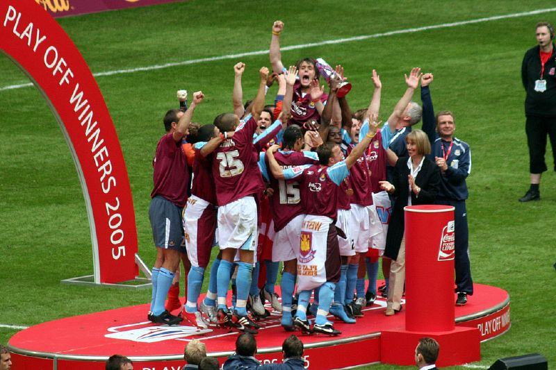 West Ham United celebrate winning the 2005 Football League playoff final against Preston North End in Cardiff